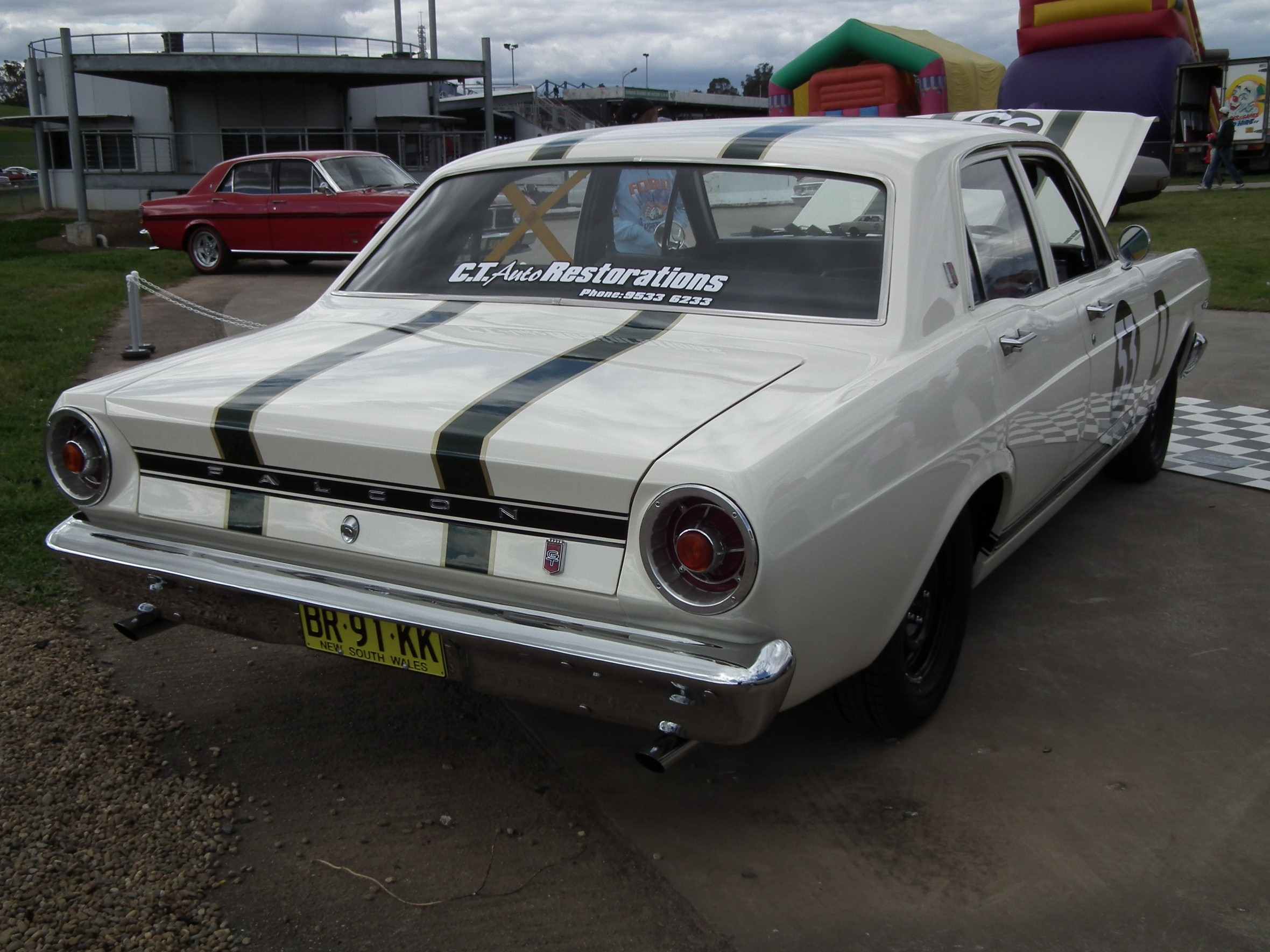 1966 Ford XR Falcon sedan. Replica of the 1967 Ford XR Falcon GT driven by Ian "Pete" Geoghegan and Leo Geoghegan in the 1967 Gallaher 500 held at Mount Panorama, Bathurst. The original car started from pole position and officially finished second behind the sister car driven by Fred Gibson and Barry Seton. The Geoghegan's claimed that due to a lap scoring error they finished ahead of the Gibson/Seton car. Taken at the 2012 New South Wales All Ford Day, held at Sydney Motorsport Park (formerly Eastern Creek Raceway).